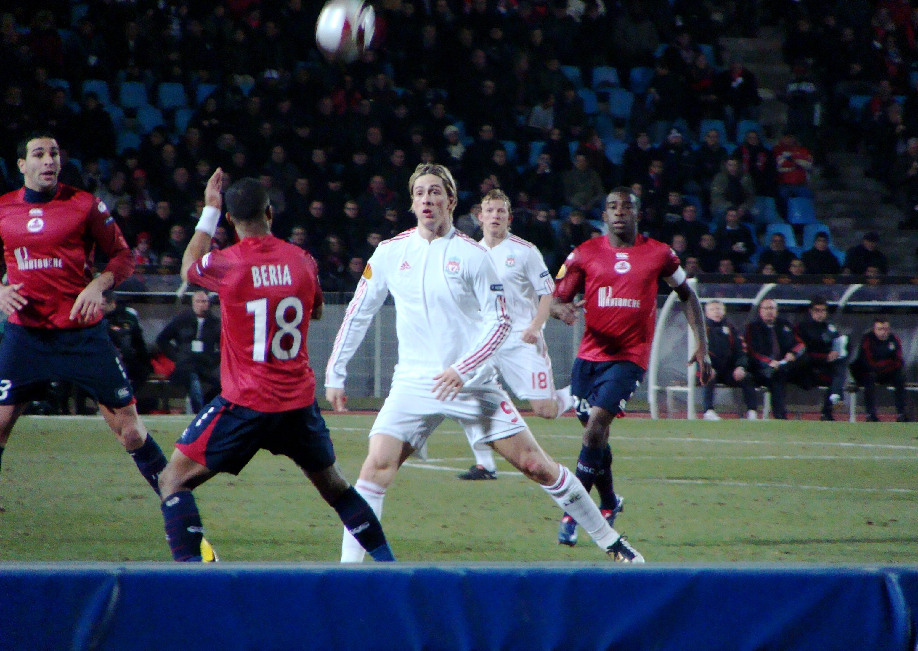 Lille Liverpool Europa League